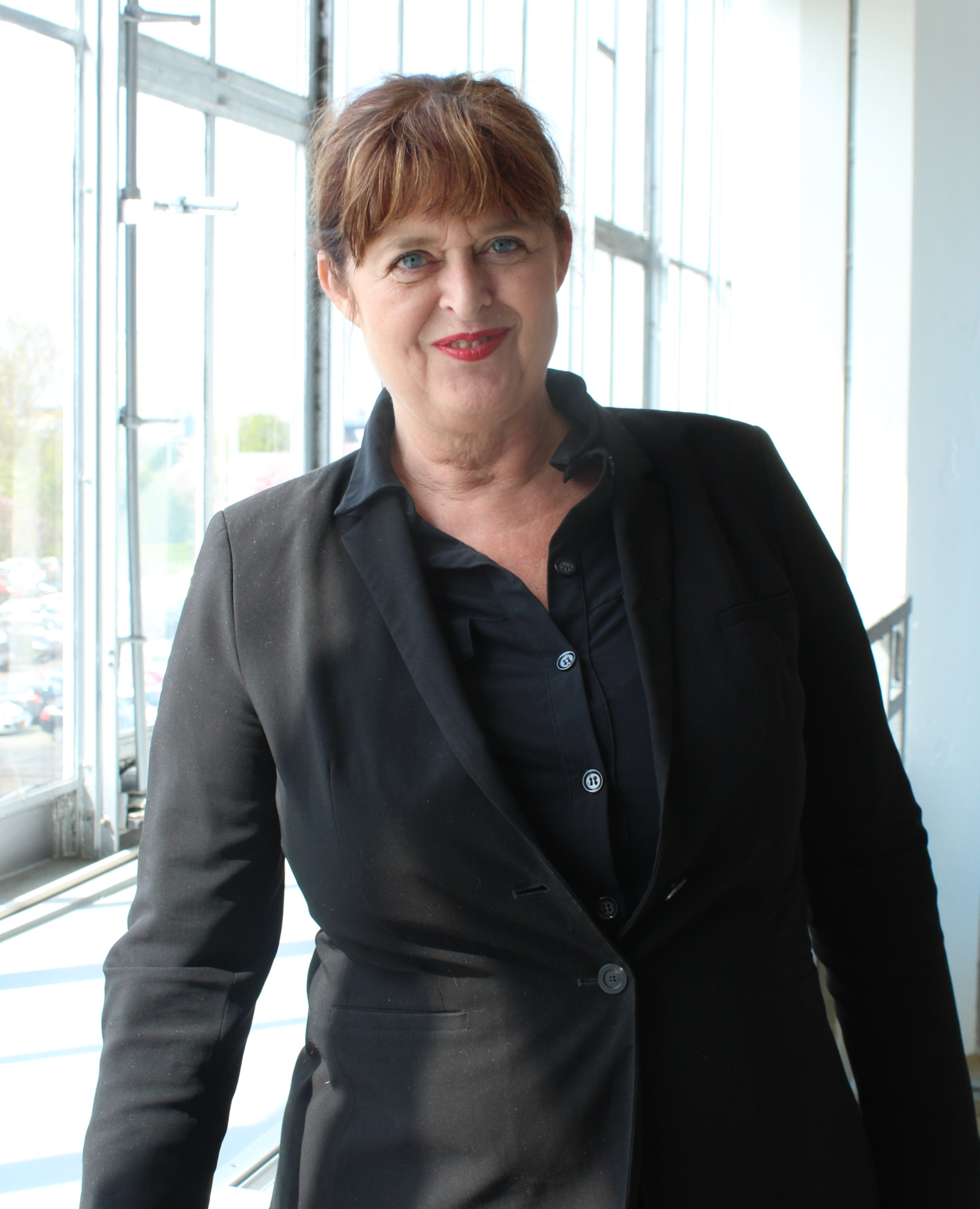 Petra Possel at Het Nationale Bibliotheekcongres, Rotterdam 16 April 2019